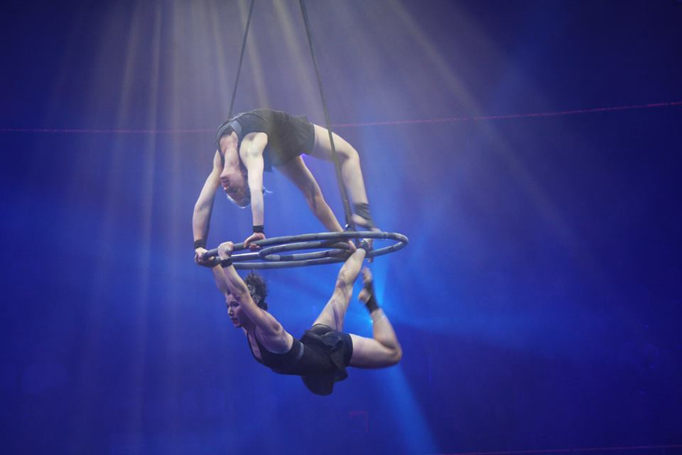 Duo Azelle in 10th International Circus Festival of Budapest.